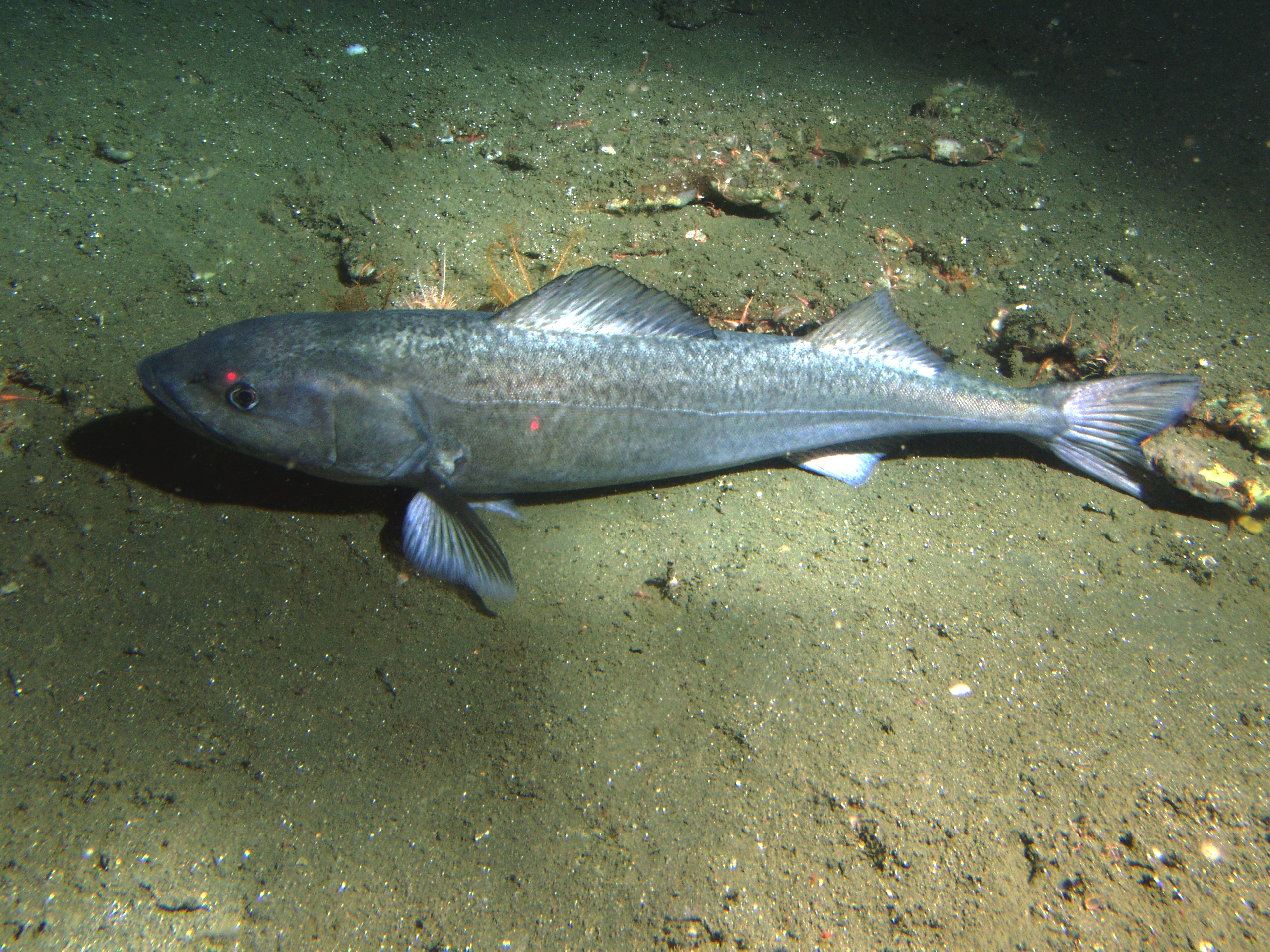 A sablefish, Anoplopoma fimbria, on soft bottom habitat at 302 meters (991 ft) in Cordell Bank National Marine Sanctuary. The red spots in the photo are lasers spaced 4 inches apart that are used to estimate the size of organisms inhabiting the area.